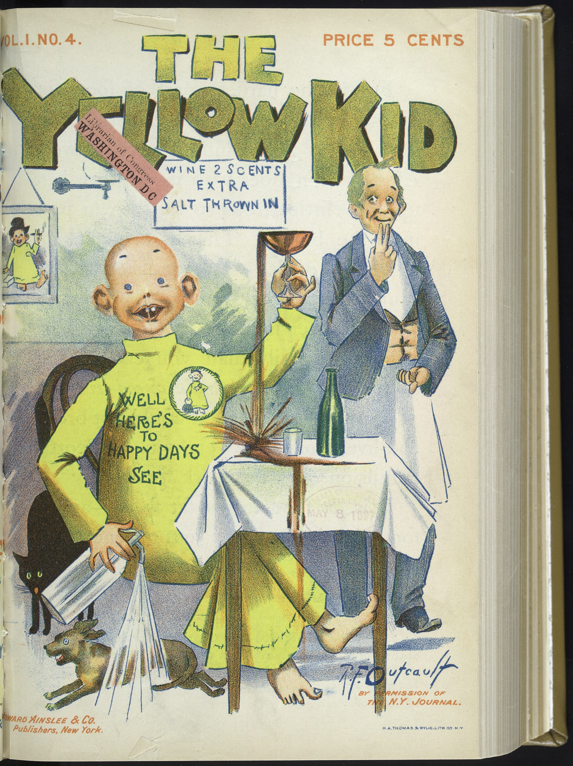 Title: The Yellow Kid Well here's to happy days, see / / R.F. Outcault. Abstract/medium: 1 print : chromolithograph.